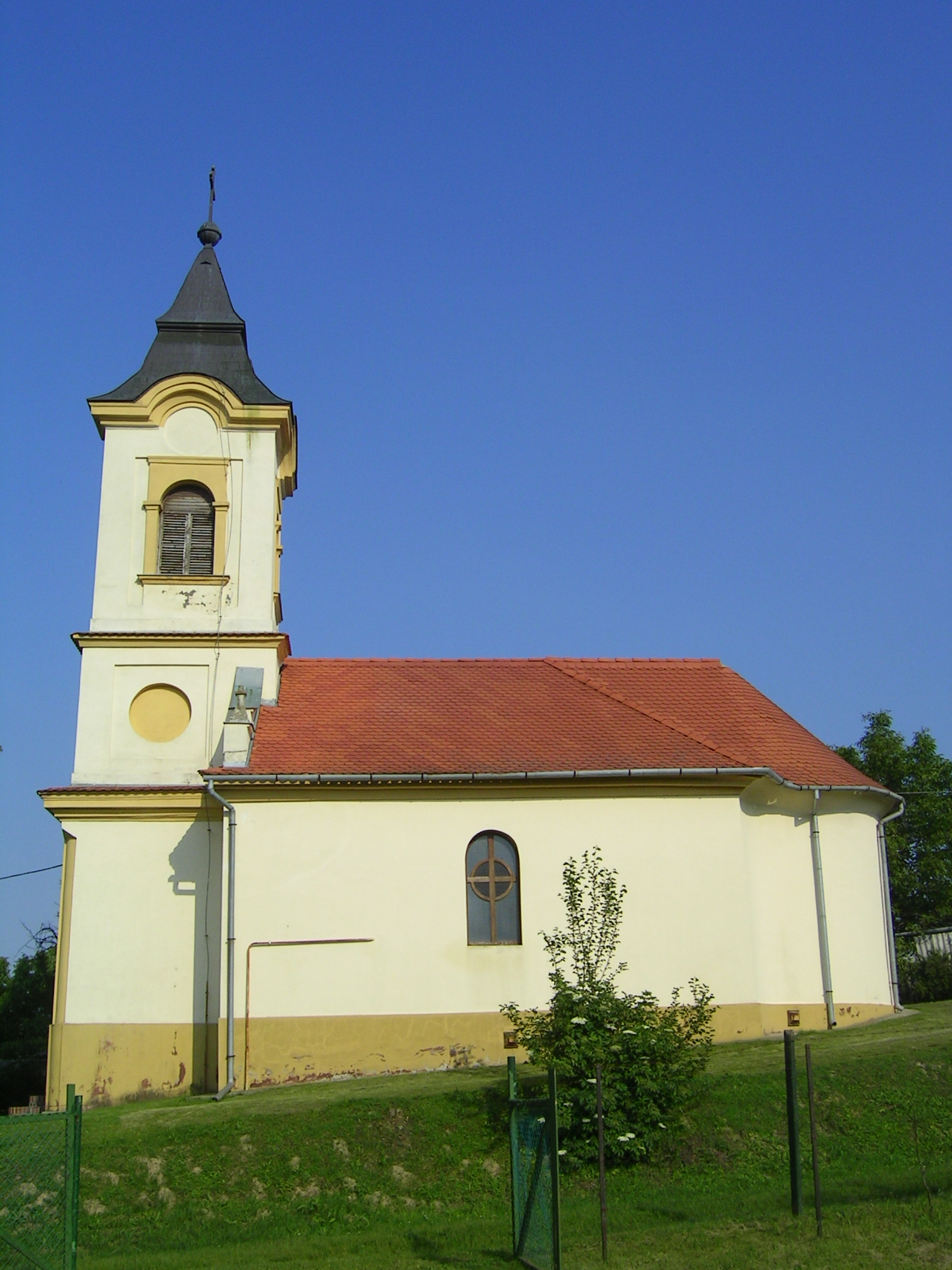 Roman catholic church in Görcsönydoboka, Hungary